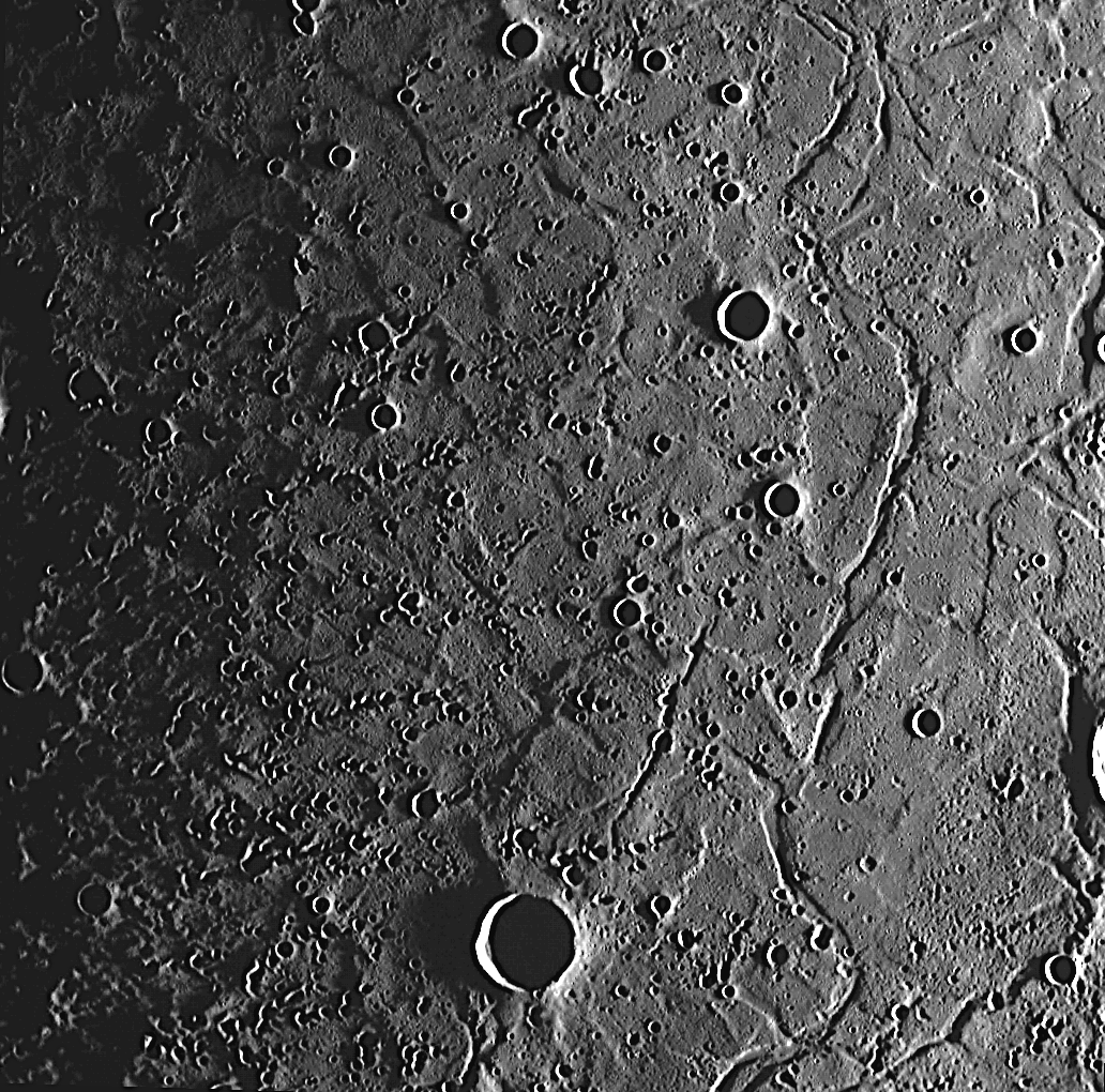 Eastern part of Caloris Planitia on Mercury. Photo, made by MESSENGER (11 october 2012). Resolution is 242 m/pixel, photo width — 250 km. Original image was slightly cropped. Date acquired: October 11, 2012 Image Mission Elapsed Time (MET): 258456401 Image ID: 2745939 Instrument: Wide Angle Camera (WAC) of the Mercury Dual Imaging System (MDIS) WAC filter: 7 (748 nanometers) Center Latitude: 27.64° Center Longitude: 171.8° E Resolution: 242 meters/pixel Scale: Image width is 250 kilometers (155 miles). Incidence Angle: 86.9° Emission Angle: 8.4° Phase Angle: 95.3°